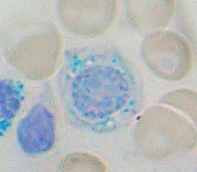 Sideroblast, as seen in sideroblastic anemia.